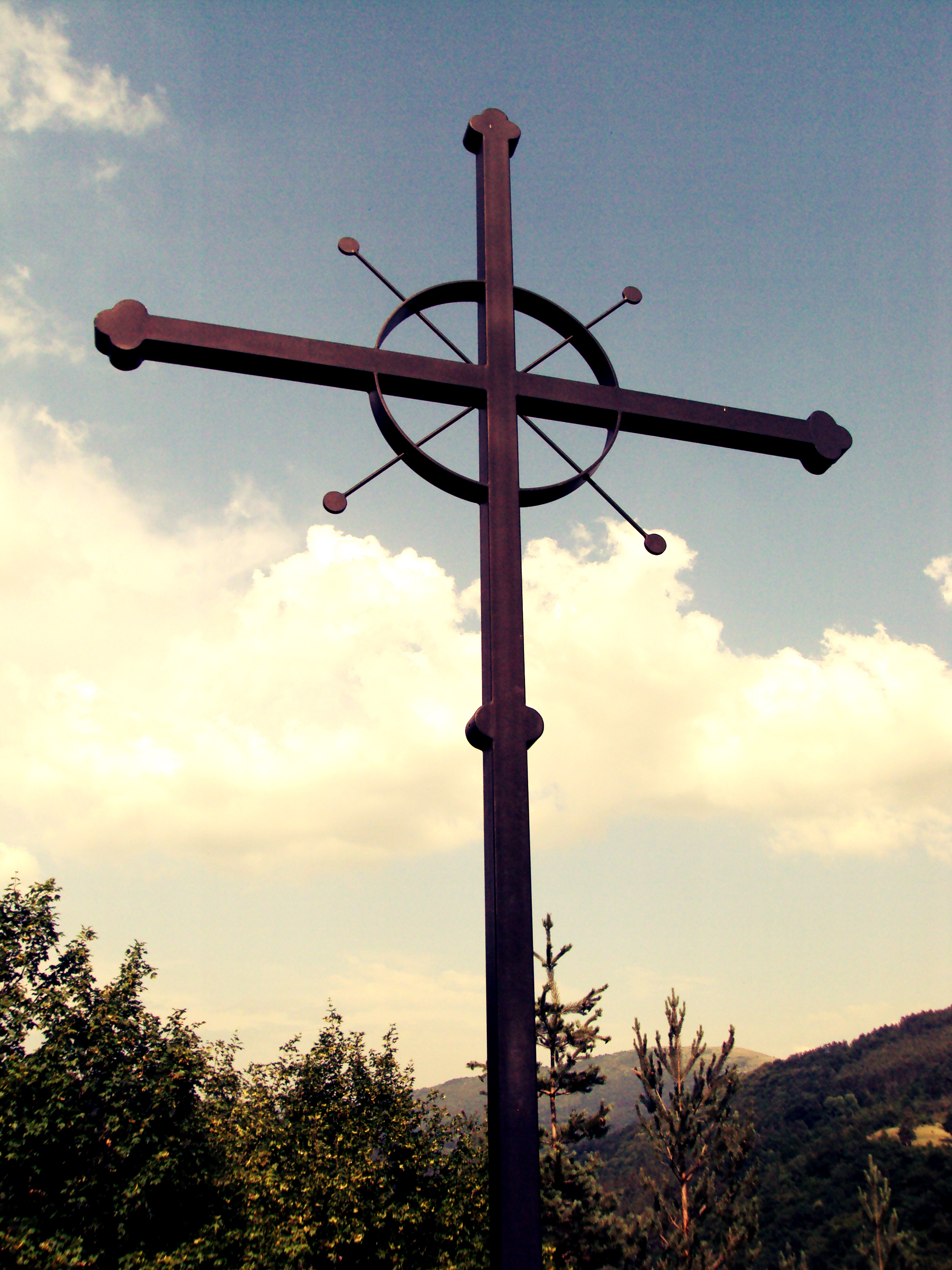 Obrochen cross Sv.Petka Trunska